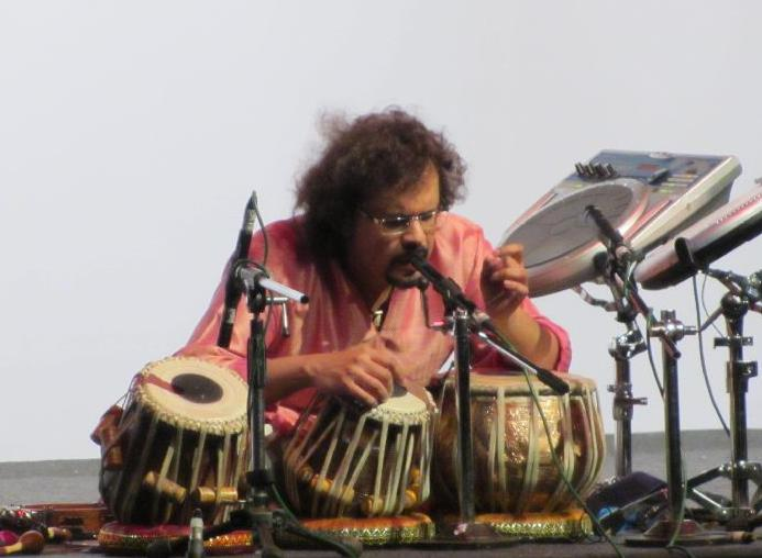 Bickram Ghosh playing live in concert.